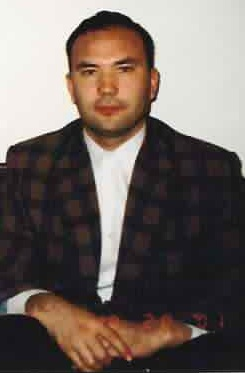 Hussayin Celi. Cropped from uploaded 25 December 2011 by user Tewpiq.